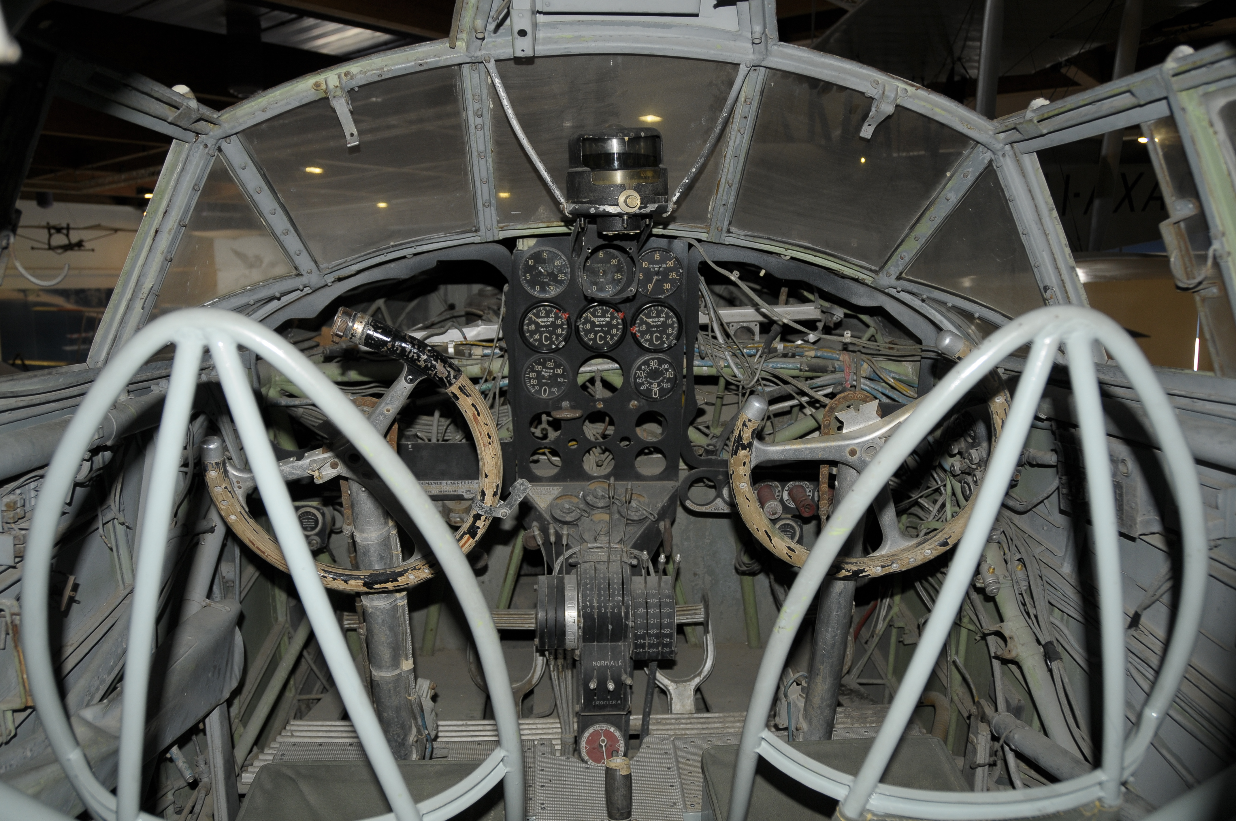 The cockpit of the Savoia Marchetti S.79 on display in the main hall of the Gianni Caproni Museum of Aeronautics in Trento, Italy.